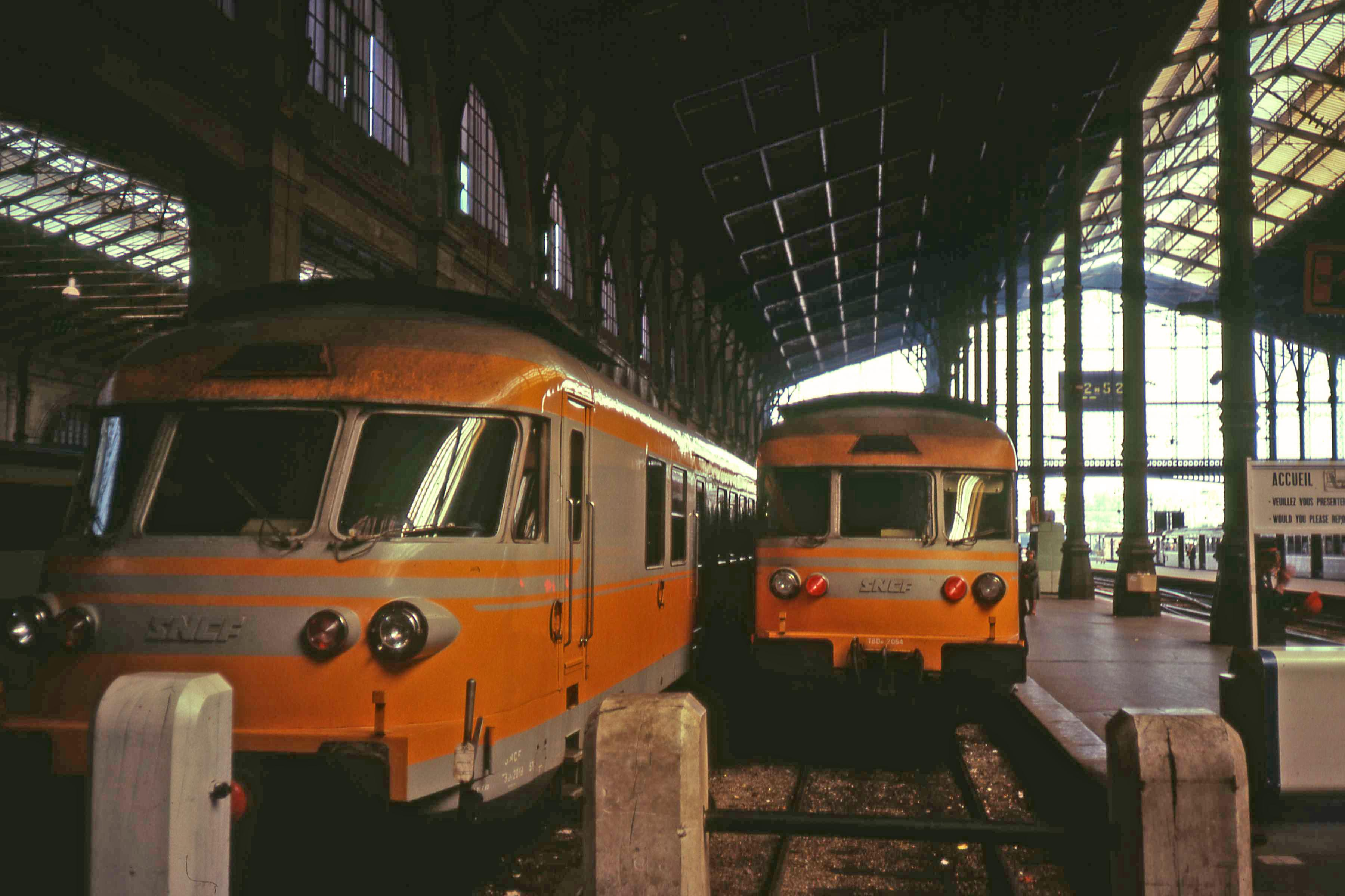 Turbotrains in Paris Gare du Nord in 1981.